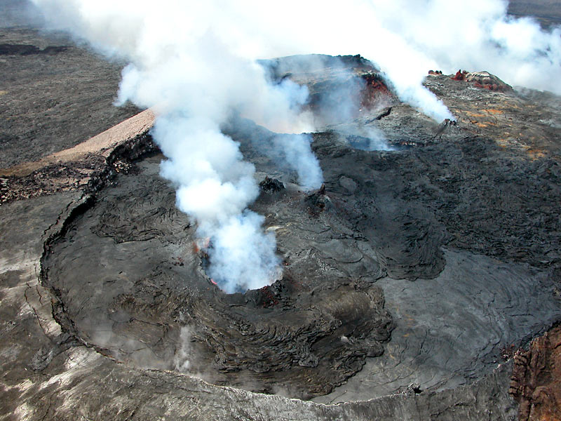 Looking west across Pu`u `O`o's crater. Plume nearest camera comes from East Pond Vent. Next plume rises from spatter cones at January Vent. Wide fuming crater in back of January Vent is South Wall Complex. Weak plume at 2 o'clock from January Vent is Drainhole. Stronger plume at 2 o/clock from Drainhole is Beehive, where a spatter cone is visible. East Pond Vent, January Vent, and Drainhole are most often visible on the video. West Gap vents not shown.